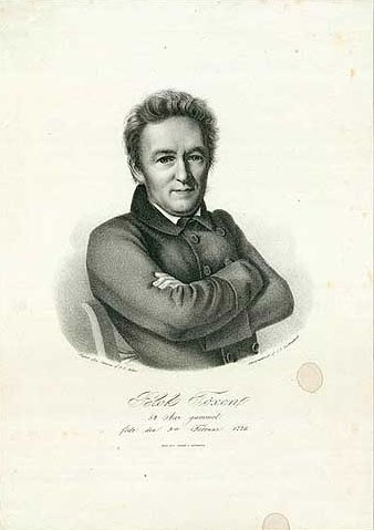 Jørgen Karstens Blok Tøxen (1776-1848)